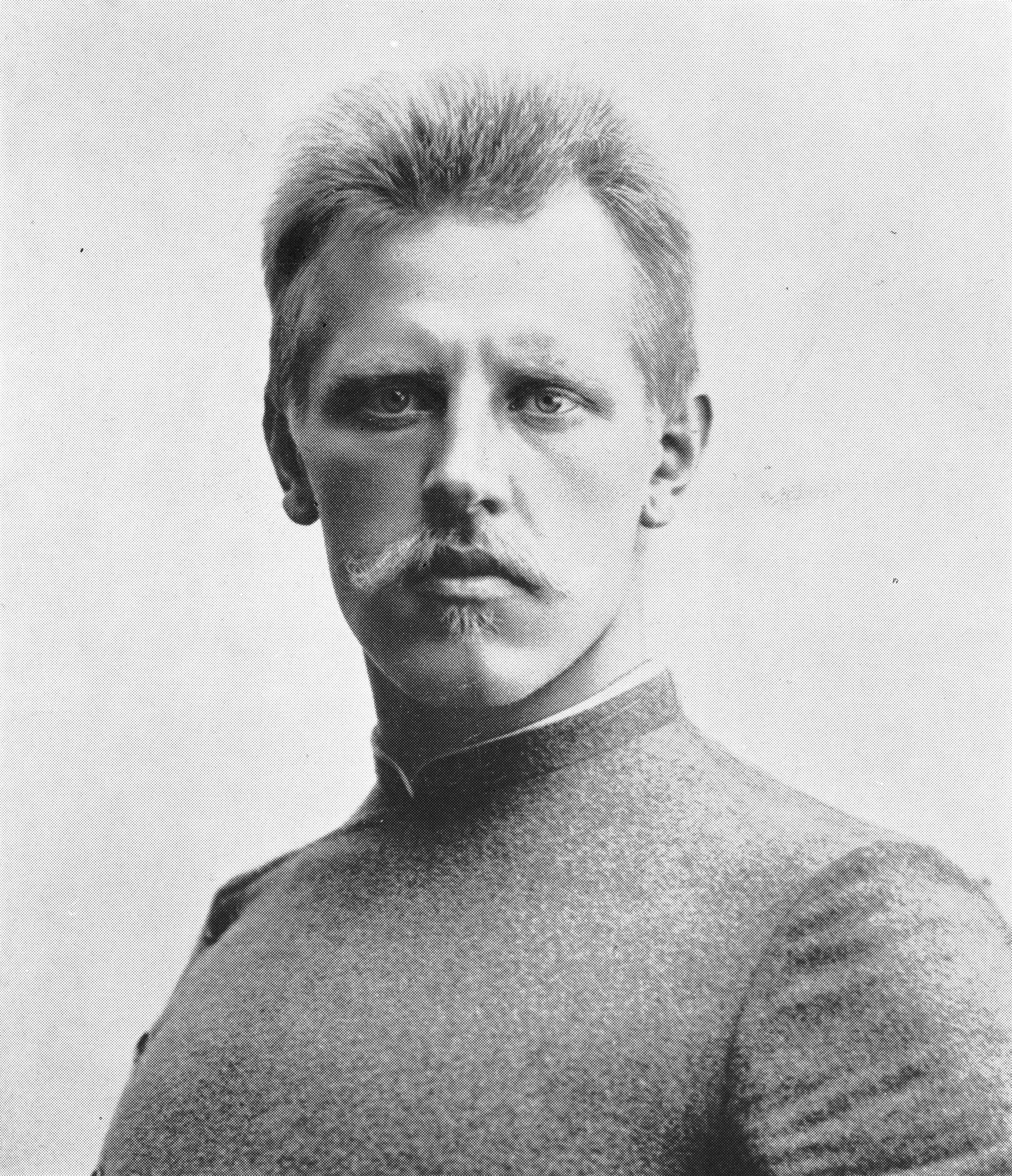 Norwegian explorer Fridtjof Nansen.